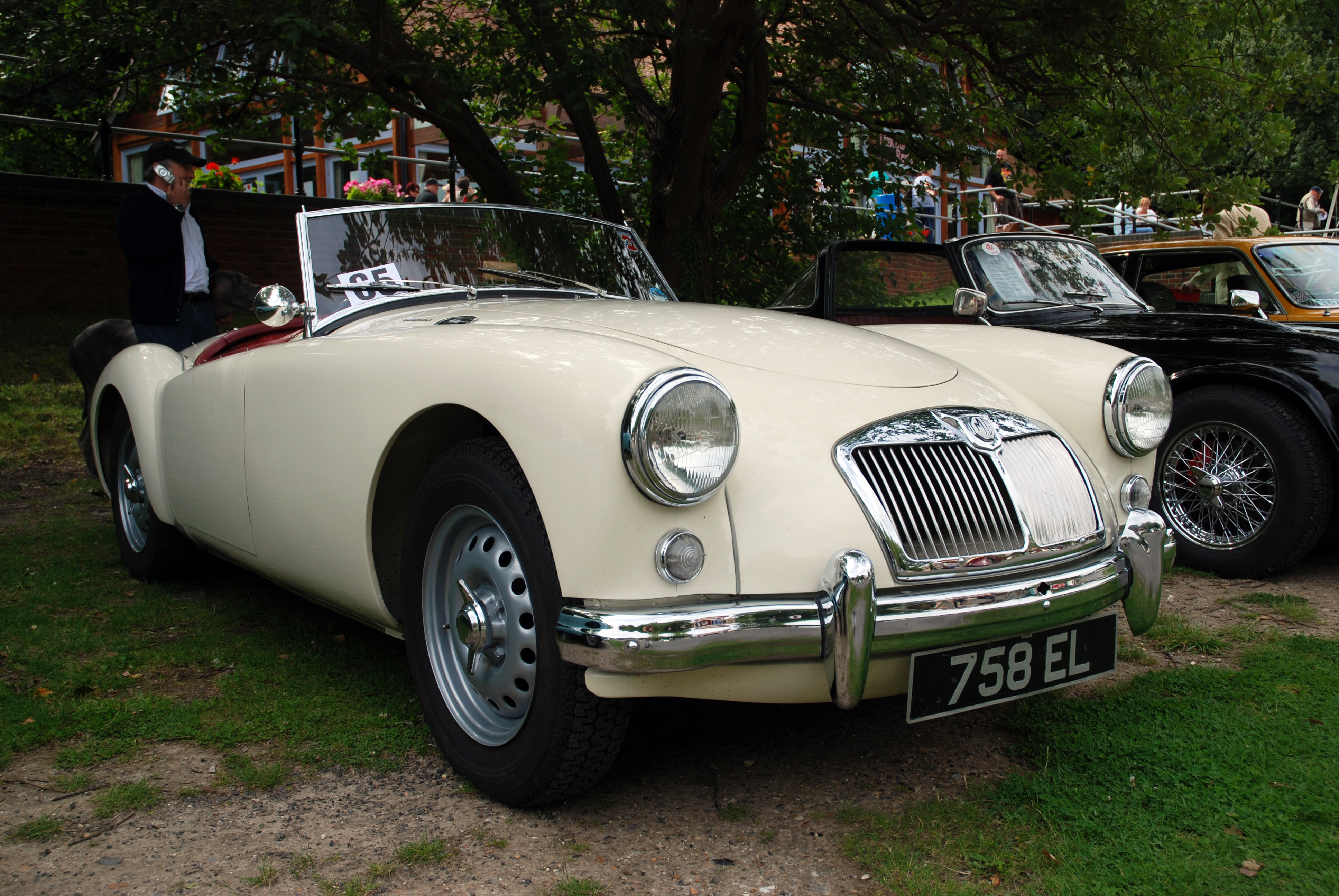 Classic Car show,Amberley Working Museum,July 2009